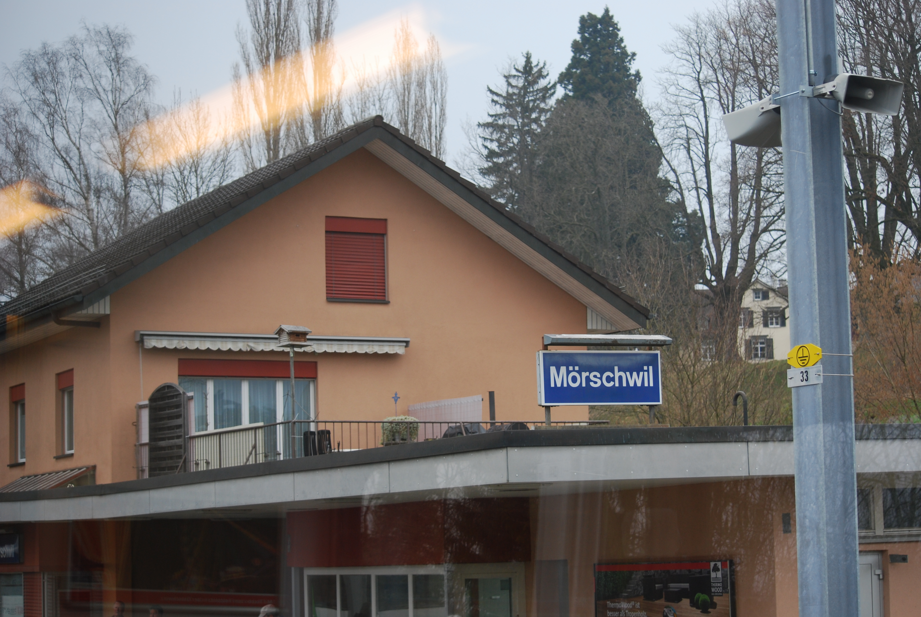 Train station of Mörschwil, canton of St. Gallen, Switzerland